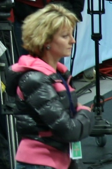 Oksana Potdykova at the 2011 World Figure Skating Championships as a coach of Bulgarian dancers Kristina Tremasova and Dimitar Lichev.